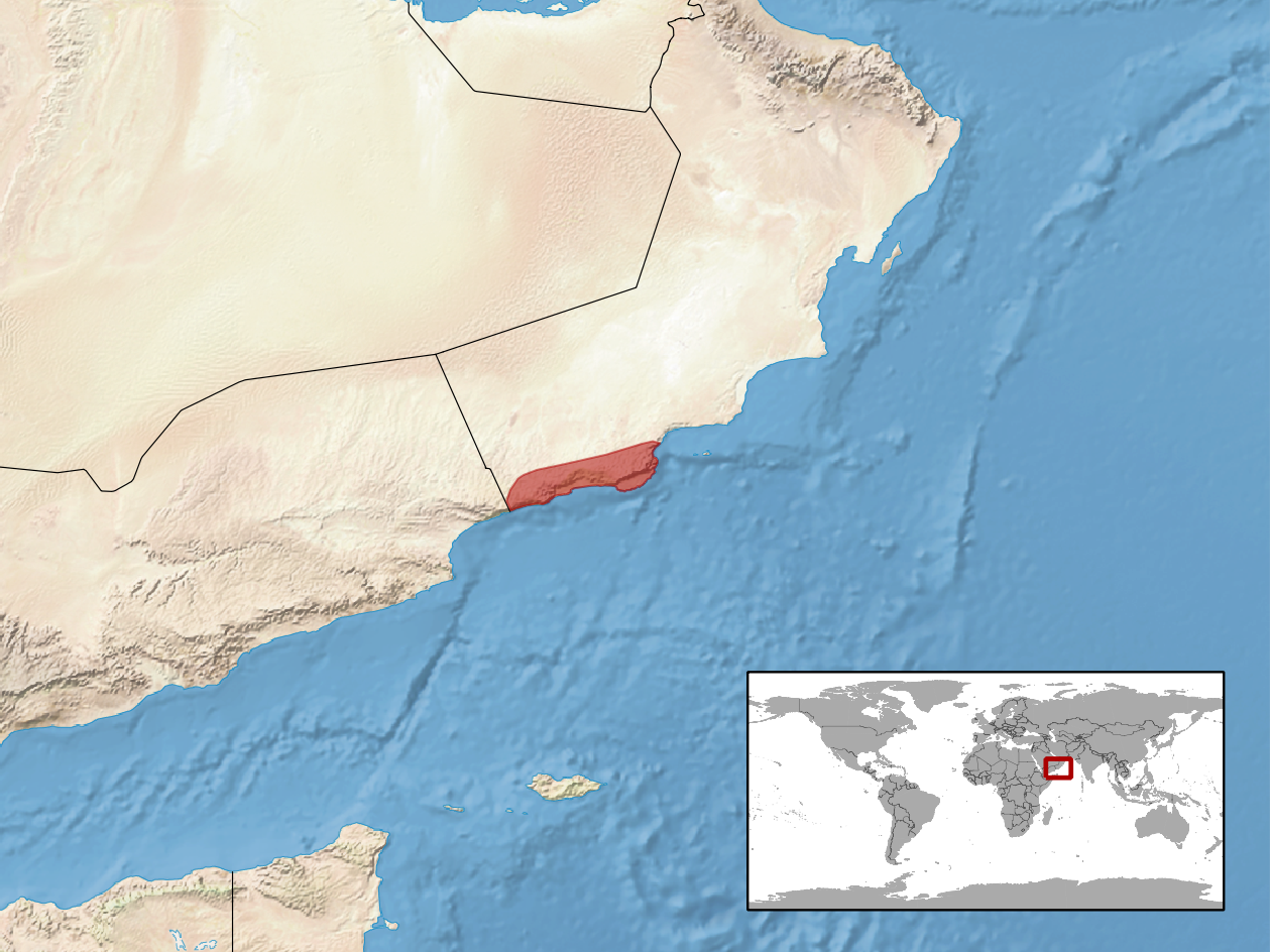 geographic distribution of Coluber thomasi (Native: Oman)